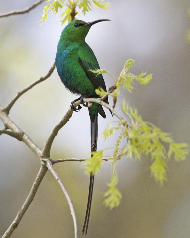 Malachite Sunbird (Nectarinia famosa) 4th. October 2009 Moore's End, A proteus farm near Stellenbosch, South Africa 690V5484